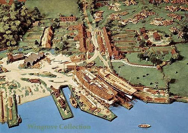 25 square foot model of the village and ship yard of Bucklers Hard, Hampshire, England, as it was on the 5th June 1803, the day before the launch of the 36 gun Frigate Euryalus